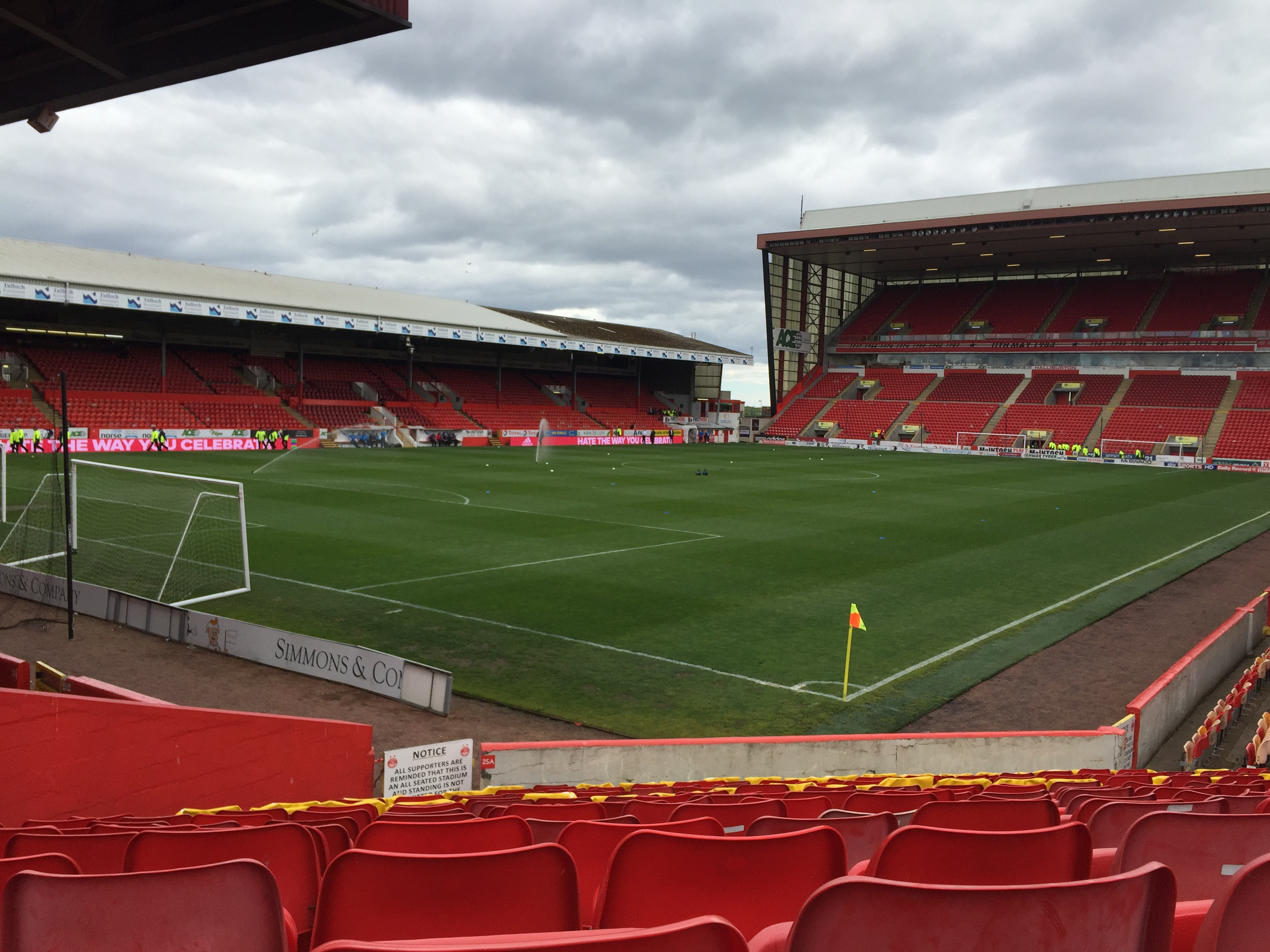 Pittodrie Stadium, home of Aberdeen F.C., as seen from section Y of the South Stand prior to the final home game of the 2014-15 season, against St. Johnstone.